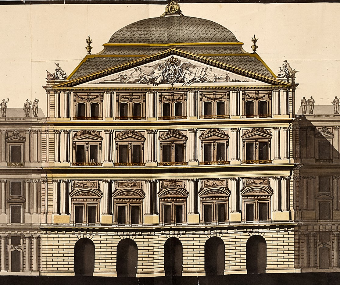 Pormenor do Alçado do Palácio Real em Campo de Ourique (A)